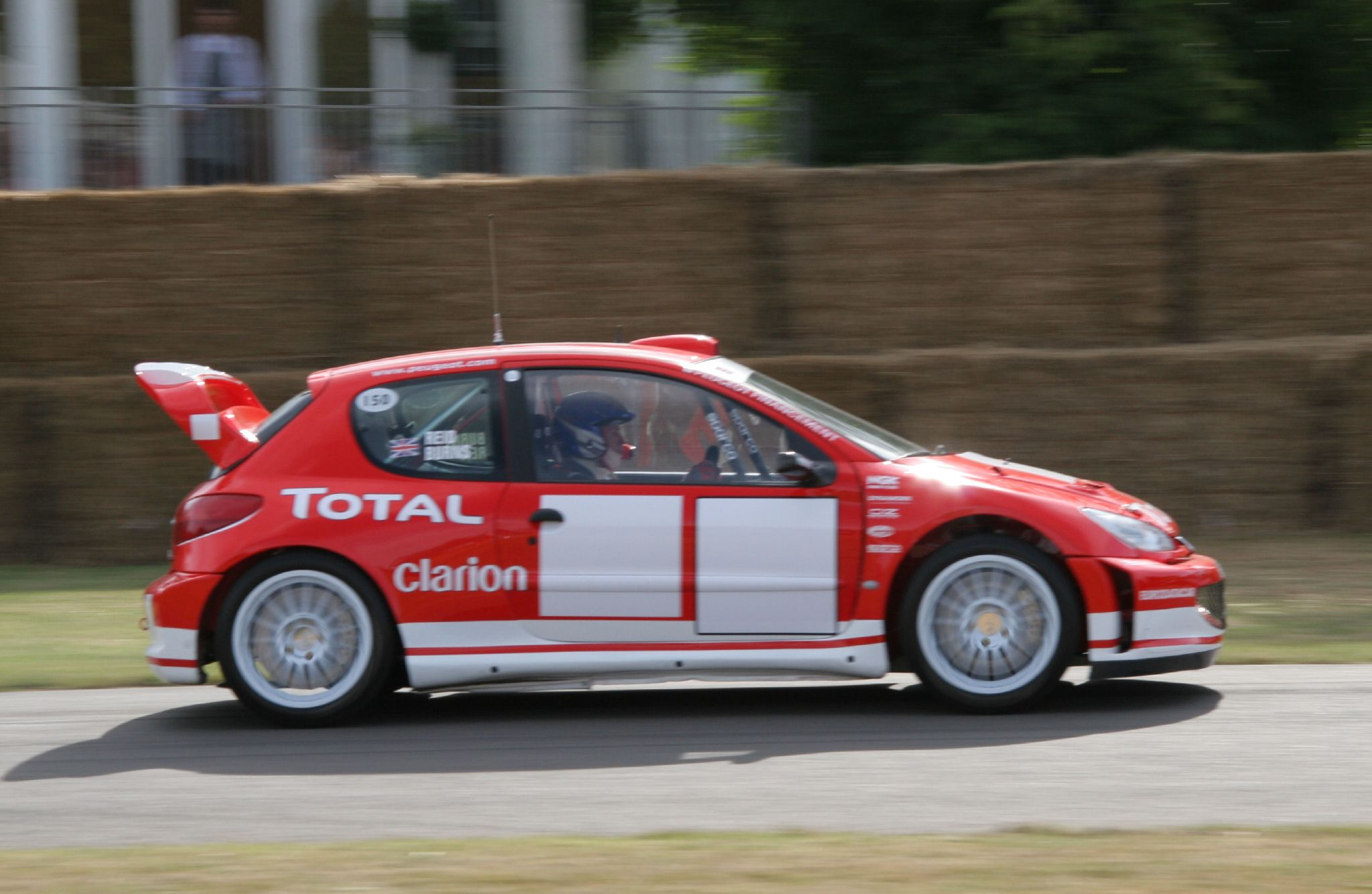 Peugeot 206 WRC at the 2006 Goodwood Festival of Speed